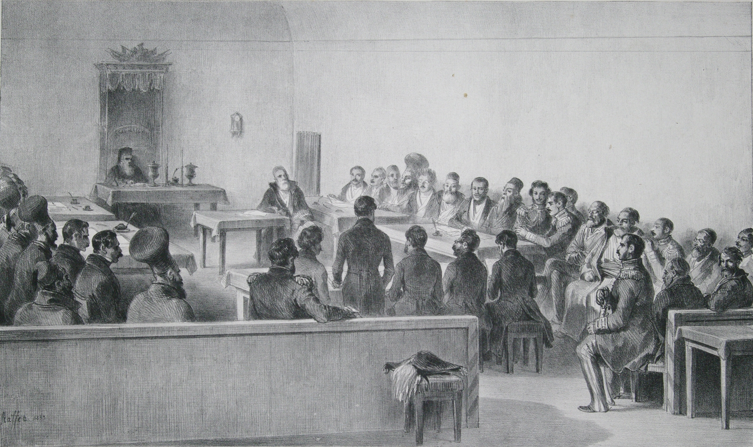 Public assembly, Bucharest, 1837